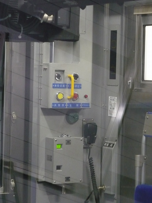 Driver's cabin of Seibu Railway 6000 Series EMU